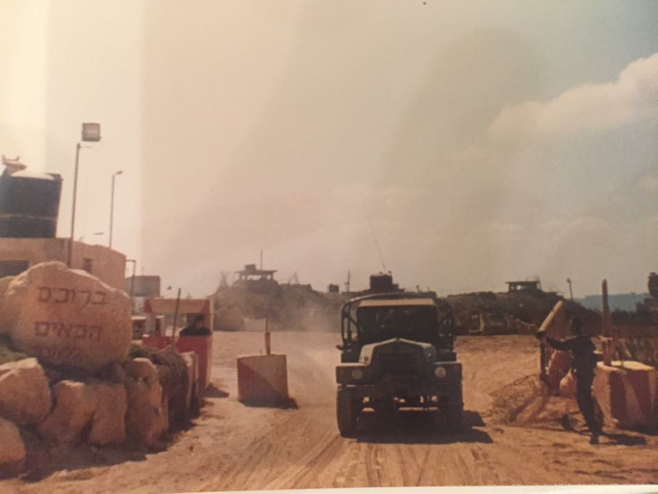 תמונה של עופר -ברוכים הבאים למוצב עיישיה ברצועת הביטחון בלבנון